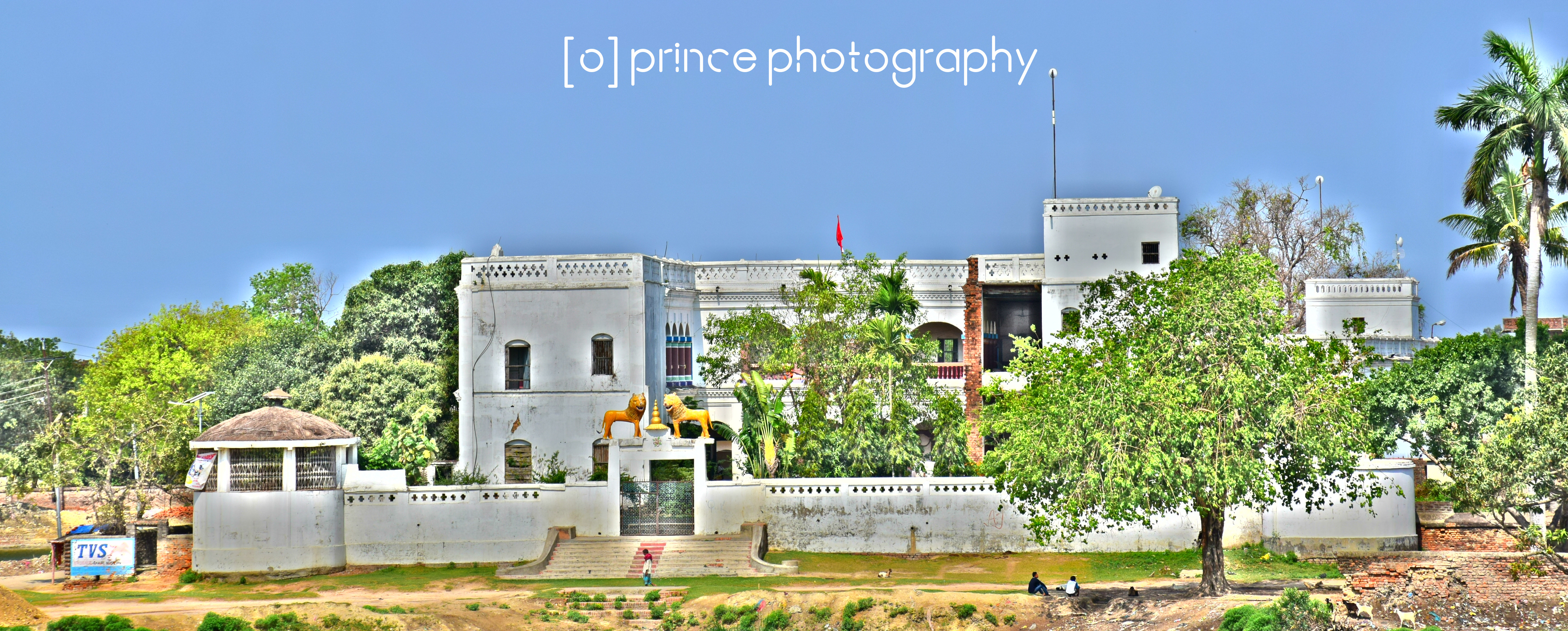 A full view of Laxmi Narayan temple from the eastern side of Temple. The drastic view of the temple in HDR mode looks amazing.